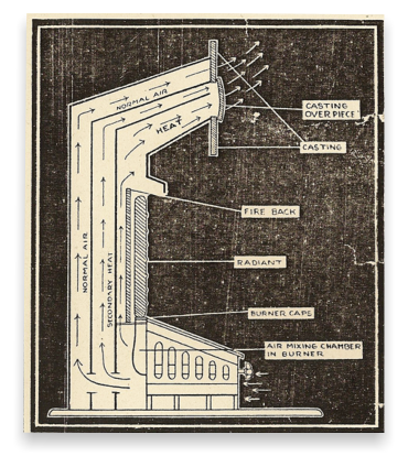 The Model "S" convection heater illustration from 1924. Created by Sala Heater and Mantel Co. in Dallas, Texas.